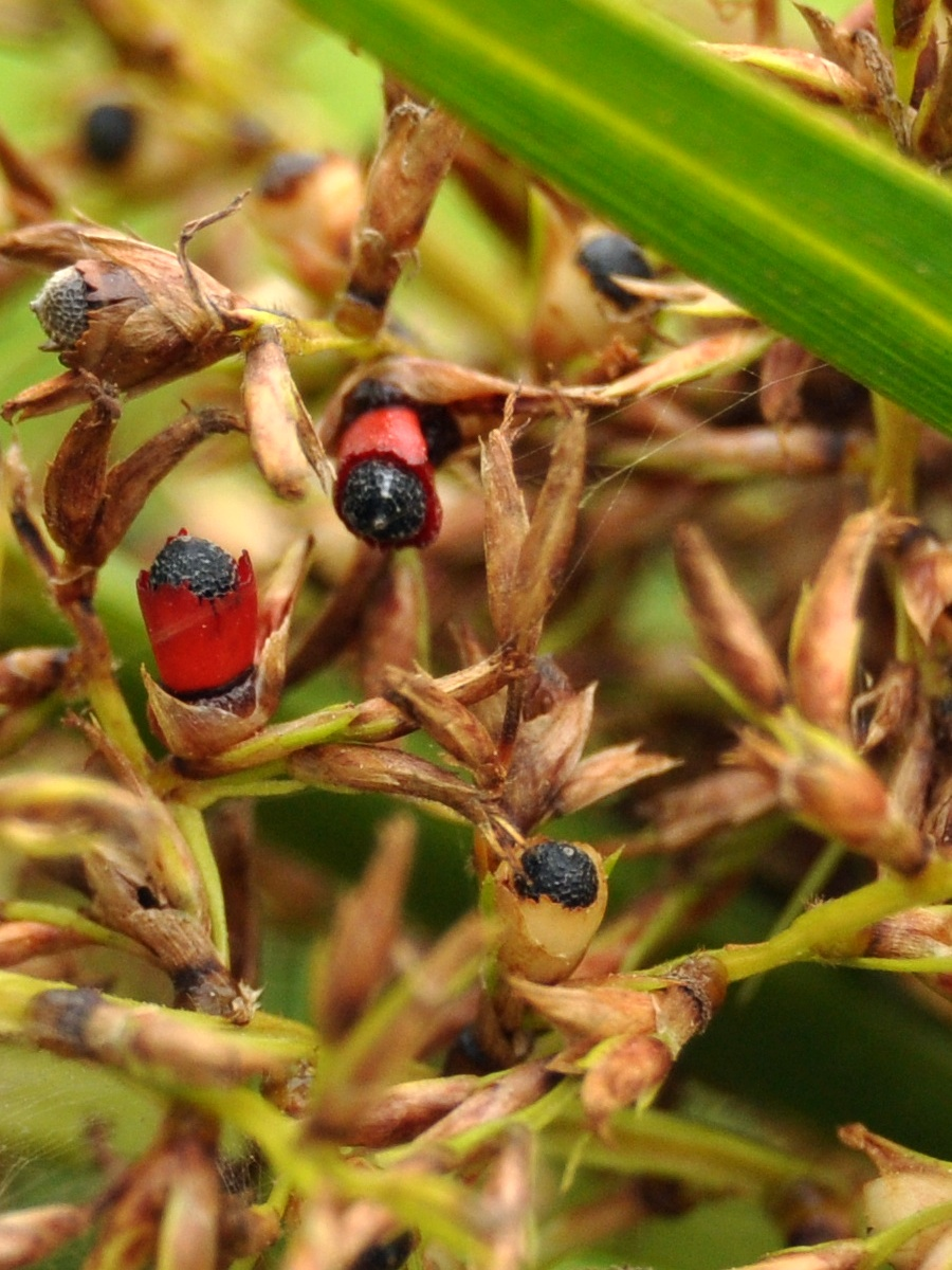 Scleria sumatrensis, fruit close up. From Rokan Hilir, Riau, Indonesia.